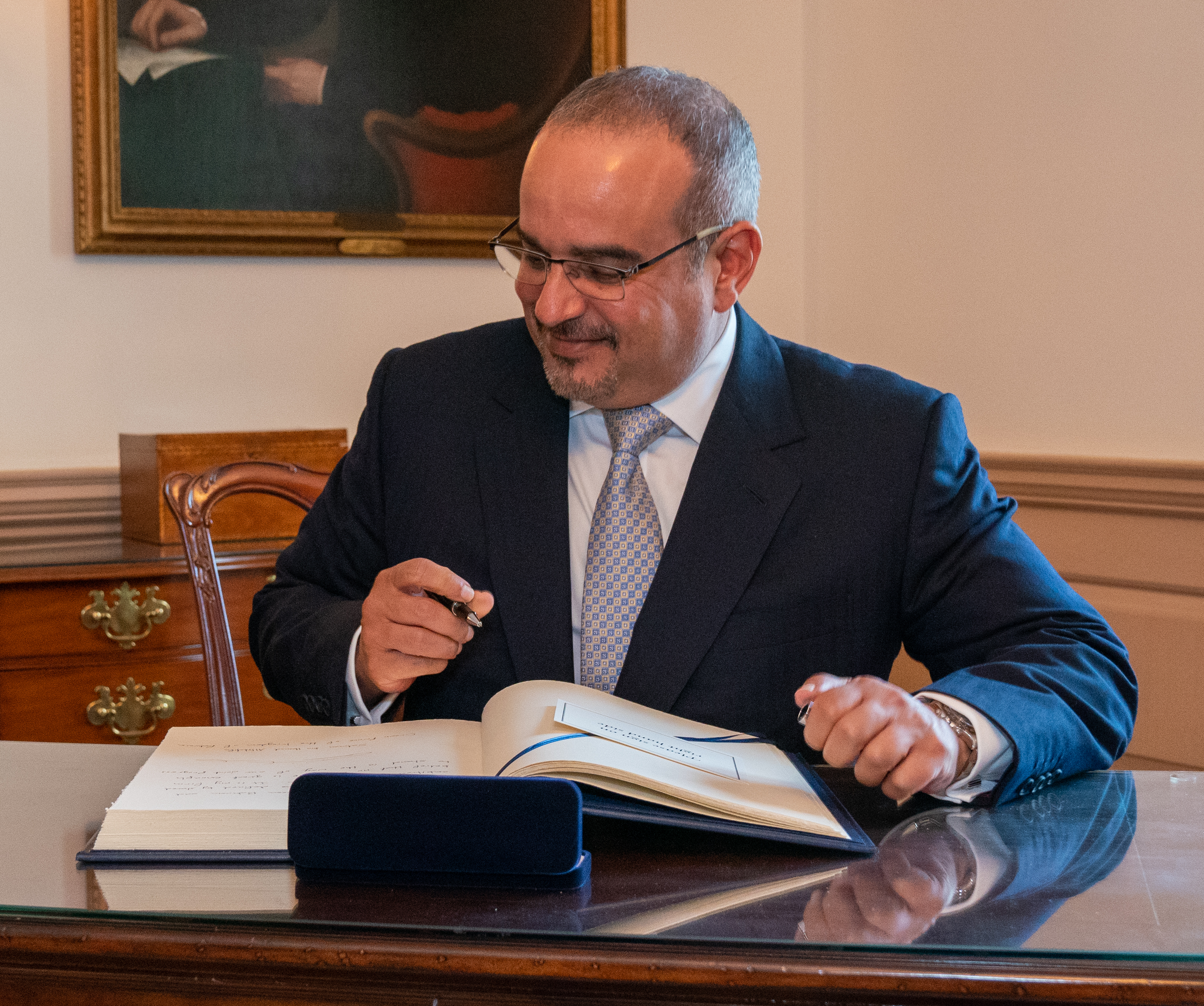 Bahraini Crown Prince Salman bin Hamad Al-Khalifa signs Secretary Pompeo's guestbook at the U.S. Department of State in Washington, D.C., on September 17, 2019. [State Department photo by Ron Przysucha/ Public Domain']